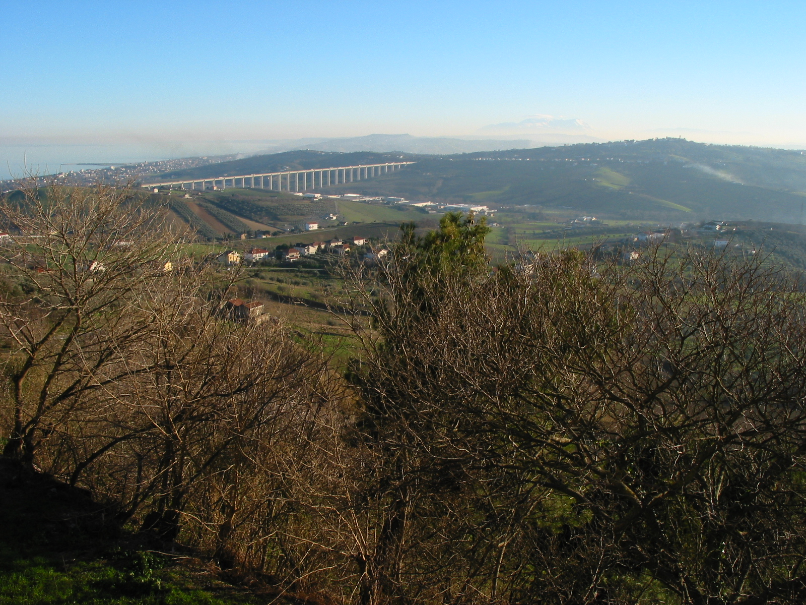 The mountain in the background is the MAIELLA about 80 Km. distant, the city on the left is Giulianova. Sometimes people jump from this Viadotto because tired of life, bad!!! About 110 meters high.